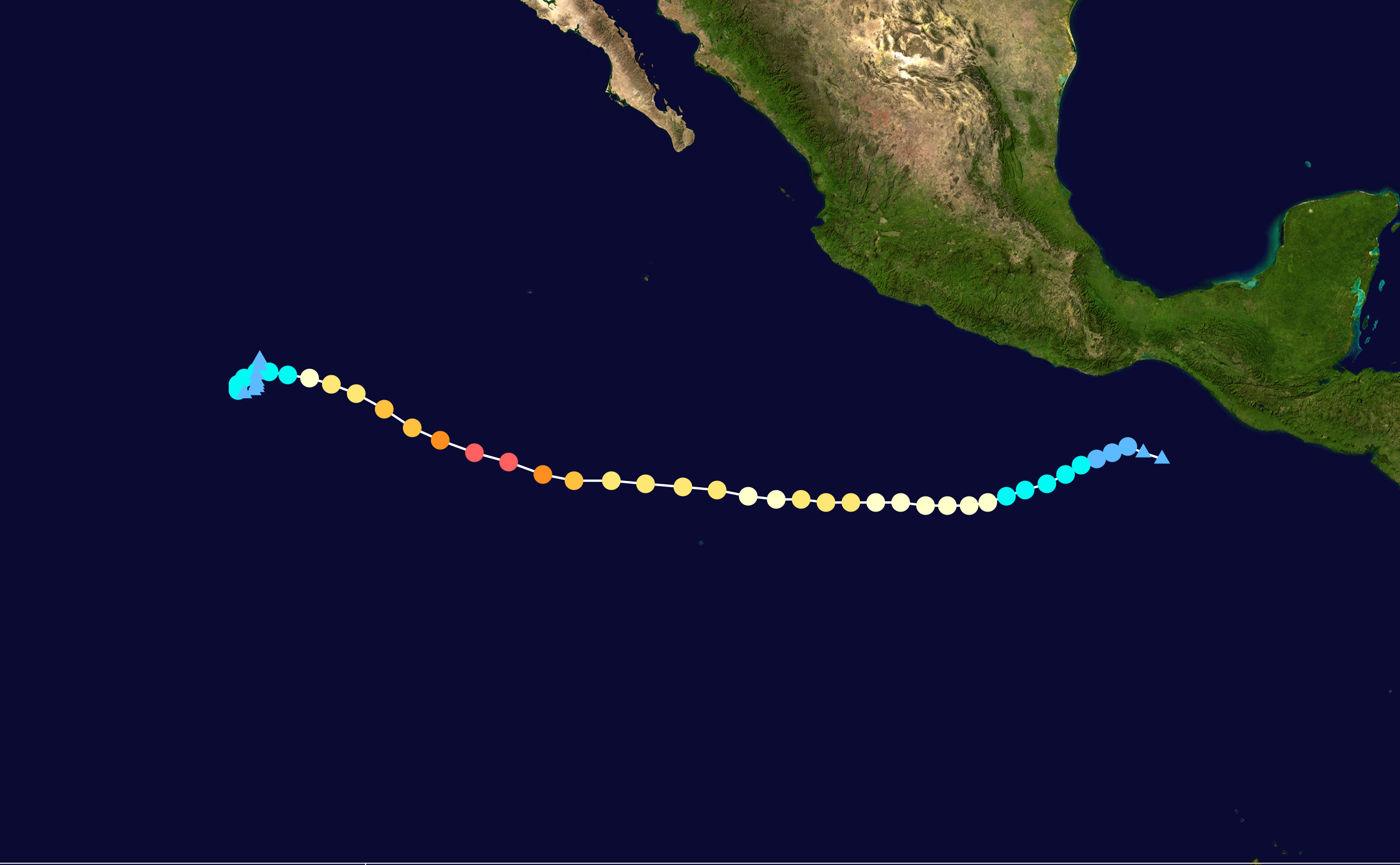 Track map of Hurricane Celia of the 2010 Pacific hurricane season. The points show the location of the storm at 6-hour intervals. The colour represents the storm's maximum sustained wind speeds as classified in the Saffir–Simpson scale (see below), and the shape of the data points represent the nature of the storm, according to the legend below. Saffir–Simpson scale Tropical depression≤38 mph≤62 km/h Category 3111–129 mph178–208 km/h Tropical storm39–73 mph63–118 km/h Category 4130–156 mph209–251 km/h Category 174–95 mph119–153 km/h Category 5≥157 mph≥252 km/h Category 296–110 mph154–177 km/h Unknown Storm type Tropical cyclone Subtropical cyclone Extratropical cyclone / Remnant low / Tropical disturbance / Monsoon depression